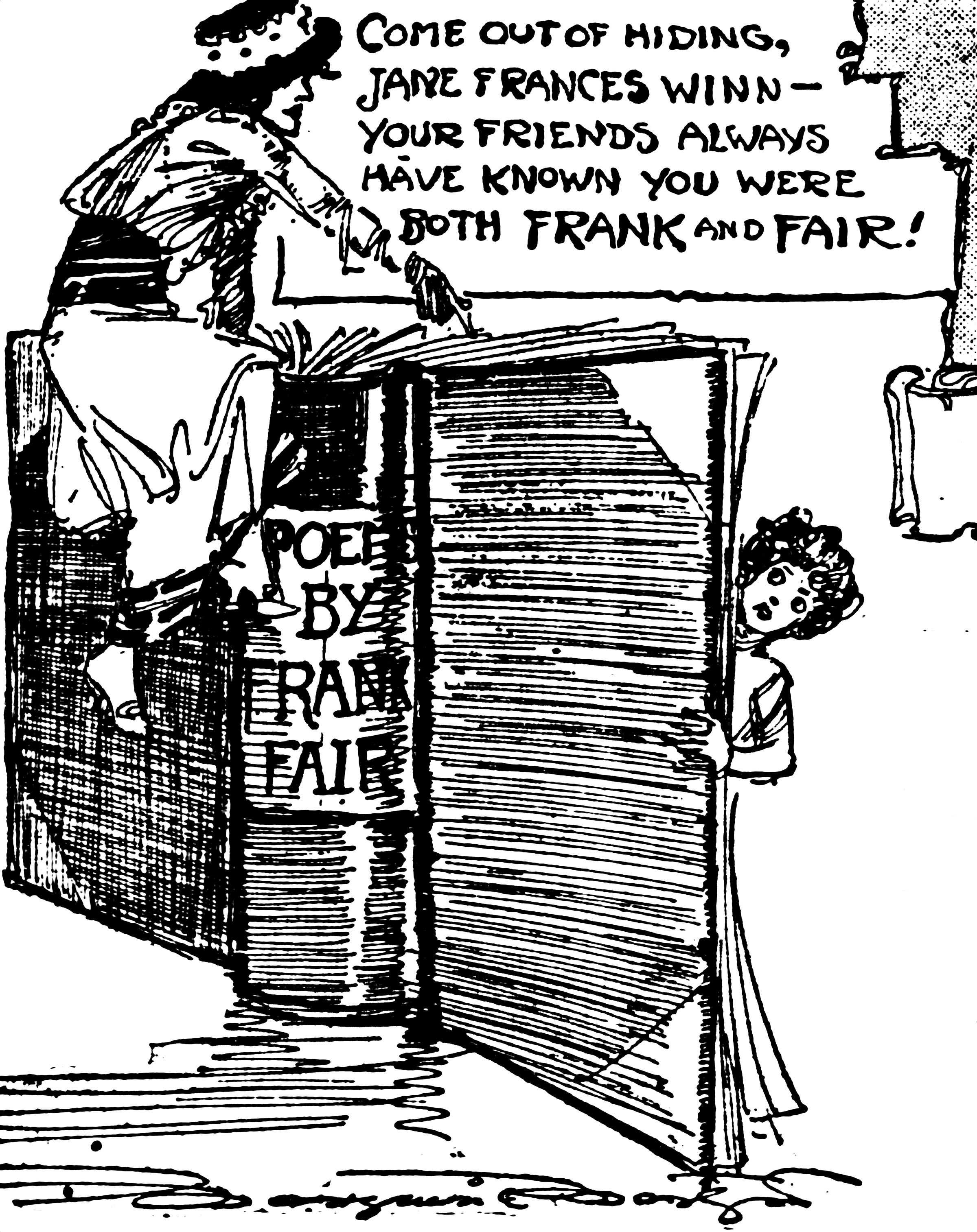 Imaginative sketch by Marguerite Martyn (on top of book) of author and journalist Jane Frances Winn (hiding behind cover), published in St. Louis Post-Dispatch, August 13, 1914 Other information Sketch was by Marguerite Martyn, employed by the Post-Dispatch.